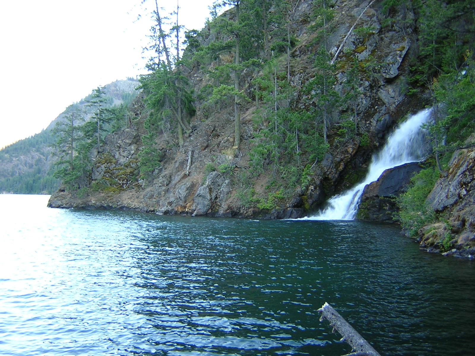 This is looking towards Dompke Falls, near the northern end of Lake Chelan, Washington.